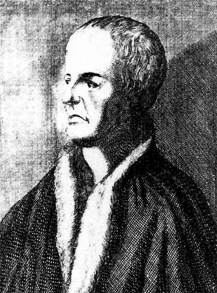 Johann Froben, Swiss printer and publisher